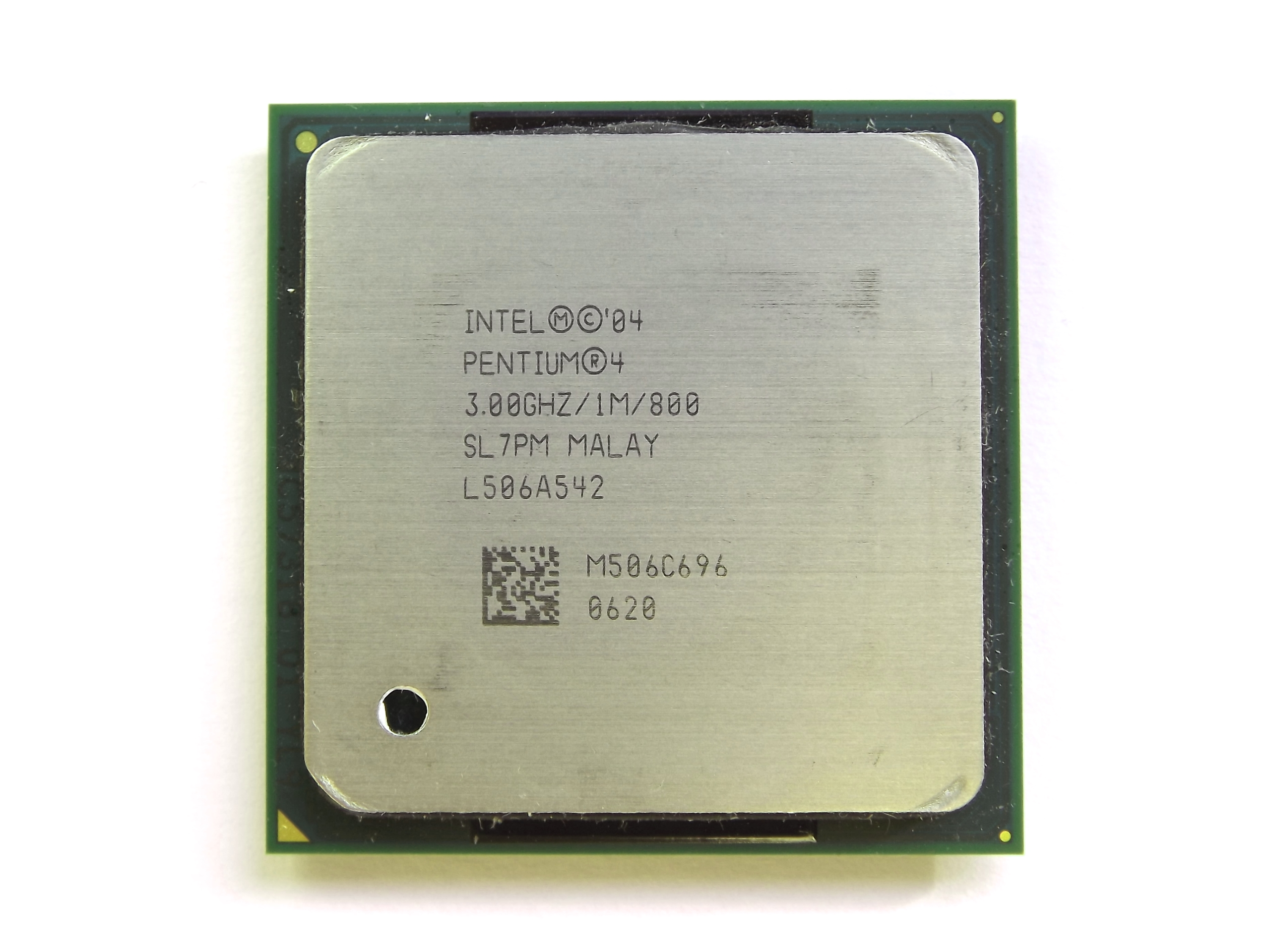 Intel Pentium 4 HT 3.0E (Prescott) for Socket 478. Date of production: week 06/2005 Frequency 3,0 GHz